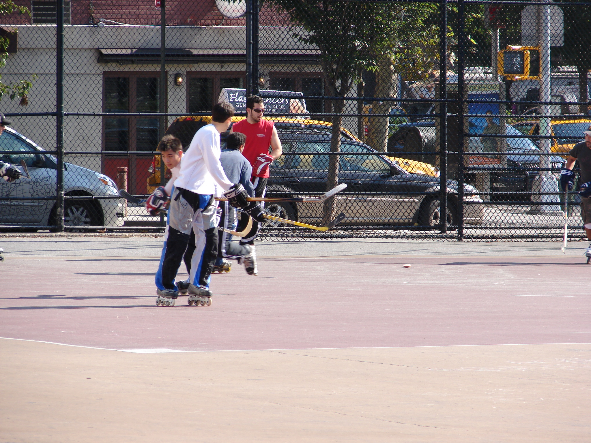 This photo is of Wikis Take Manhattan goal code S17, Roller skating.